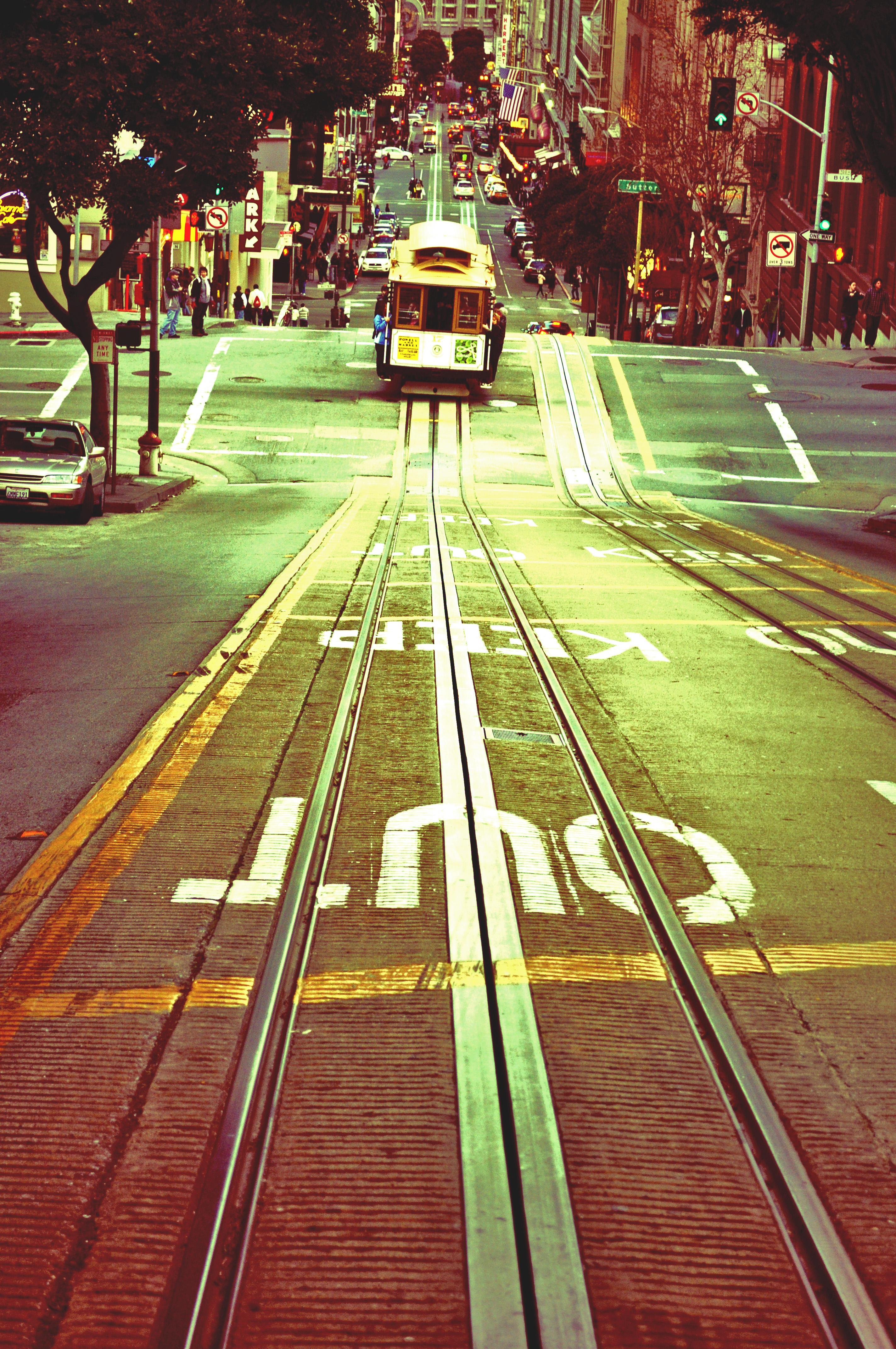 A historic Powell line cable car at Sutter & Powell.